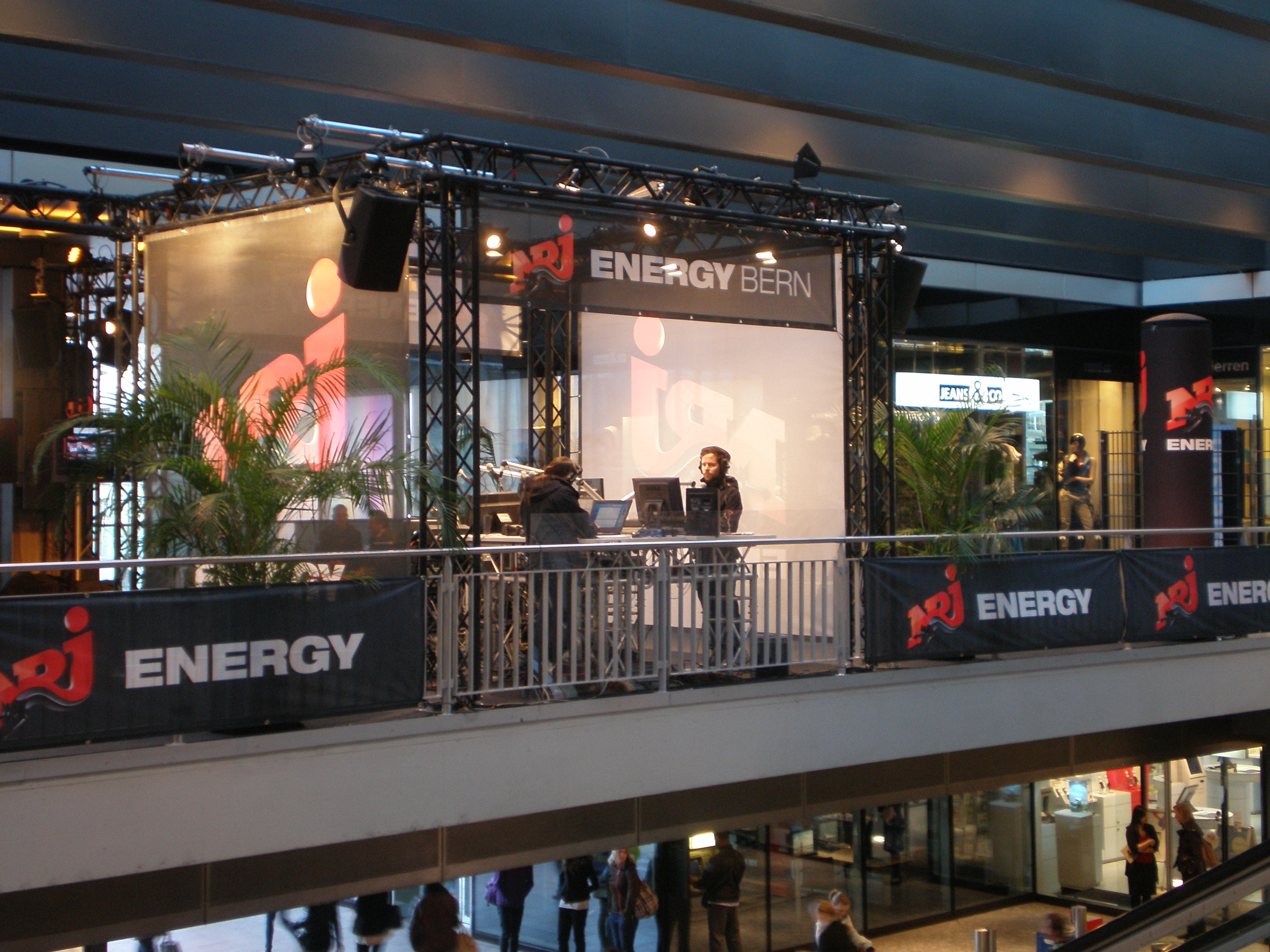 The radio station Energy Bern live at the station in Bern.